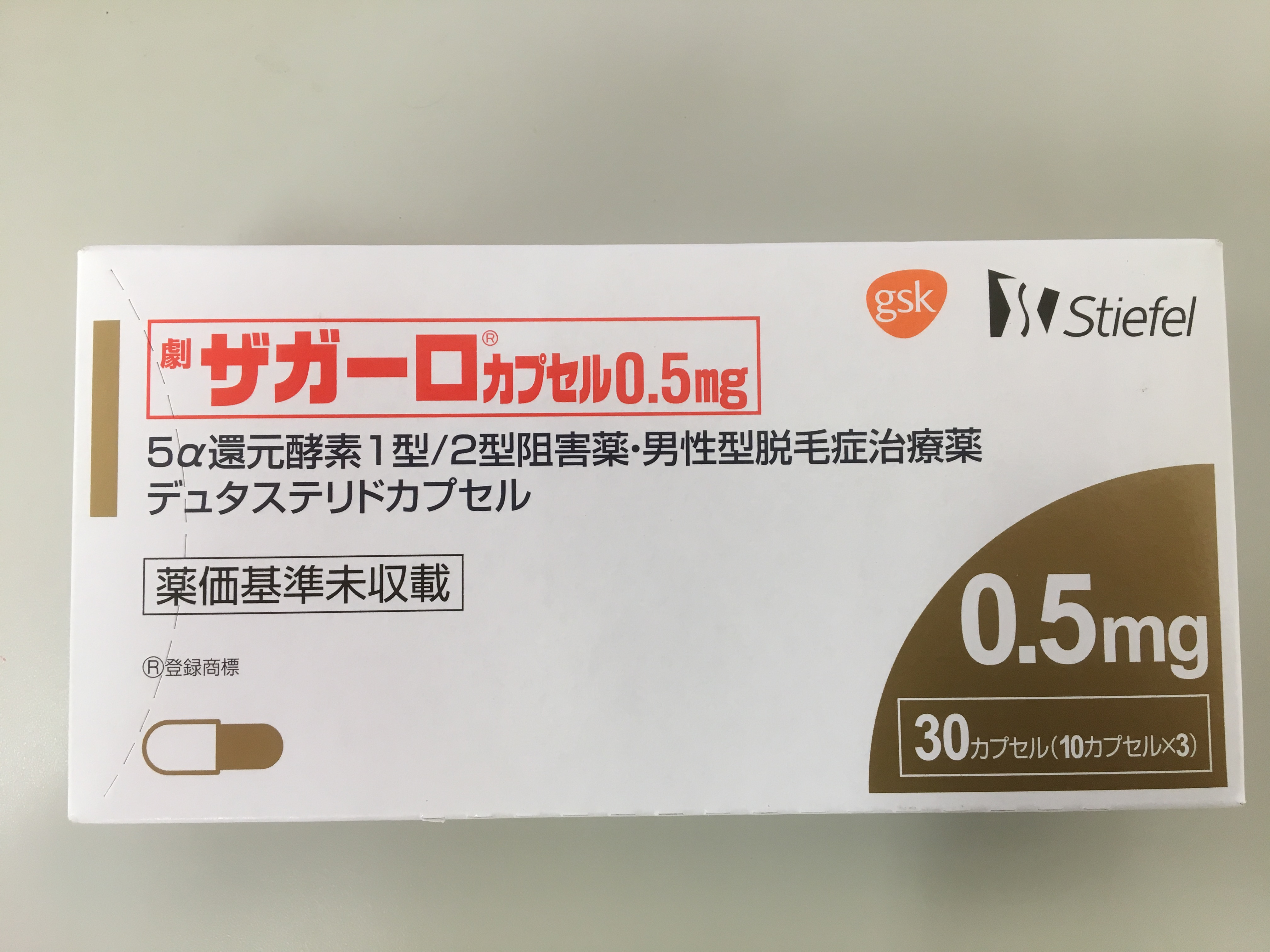 Dutasteride (ZAGALLO Capsules) 5α-reductase inhibitor